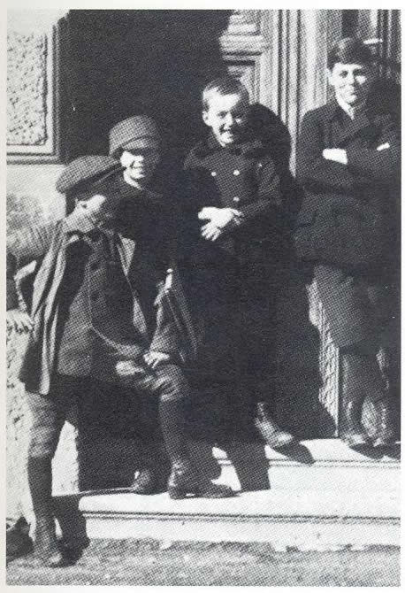 Herbert von Karajan's Childhood: He with his brother Wolfgang and two friends